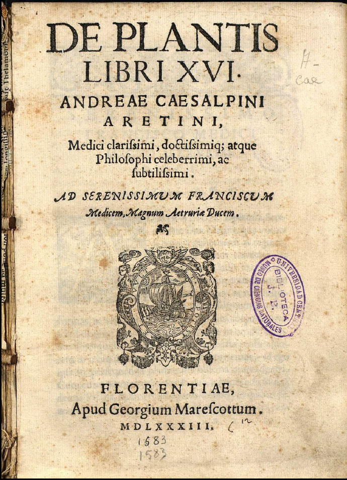 Title page of Andrea Cesalpino's De Plantis Libri XVI (1583)